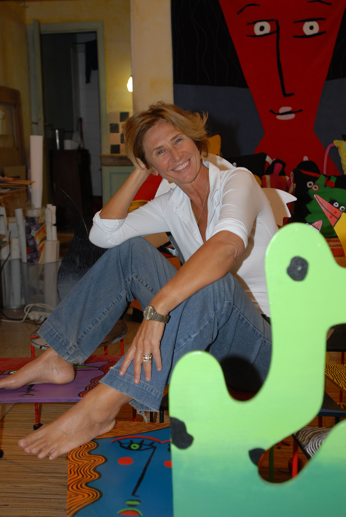 Chiara Rapaccini nel suo atelier